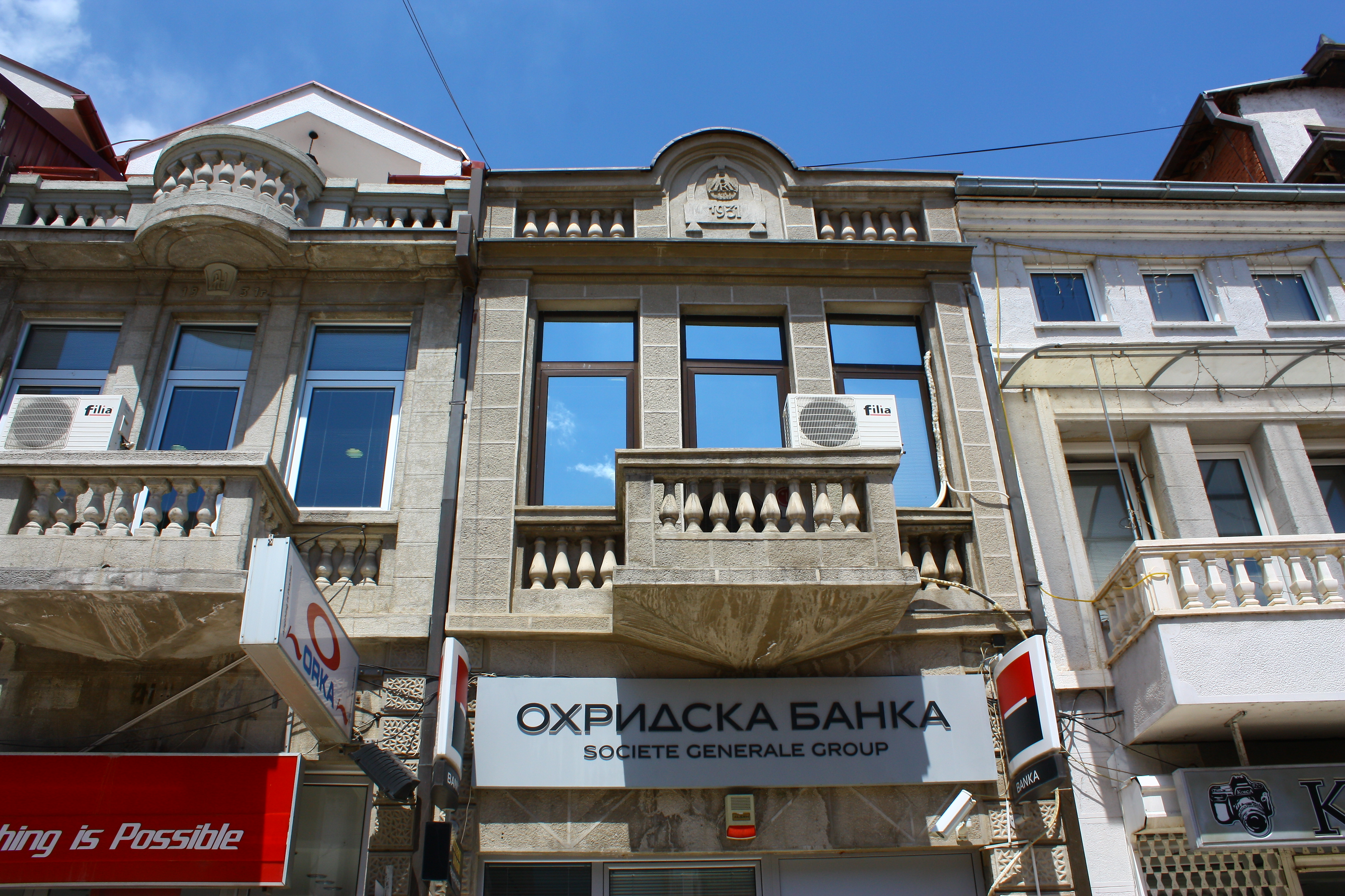 Struga, Macedonia